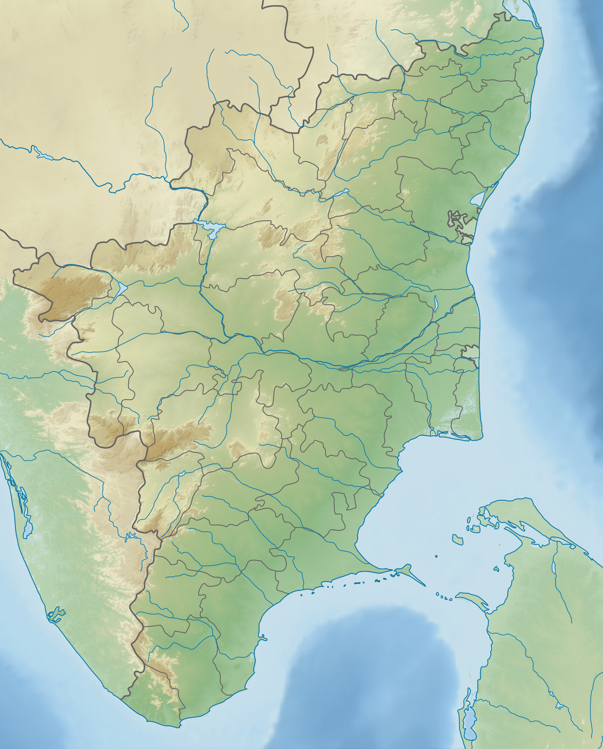 Relief map of Tamil Nadu